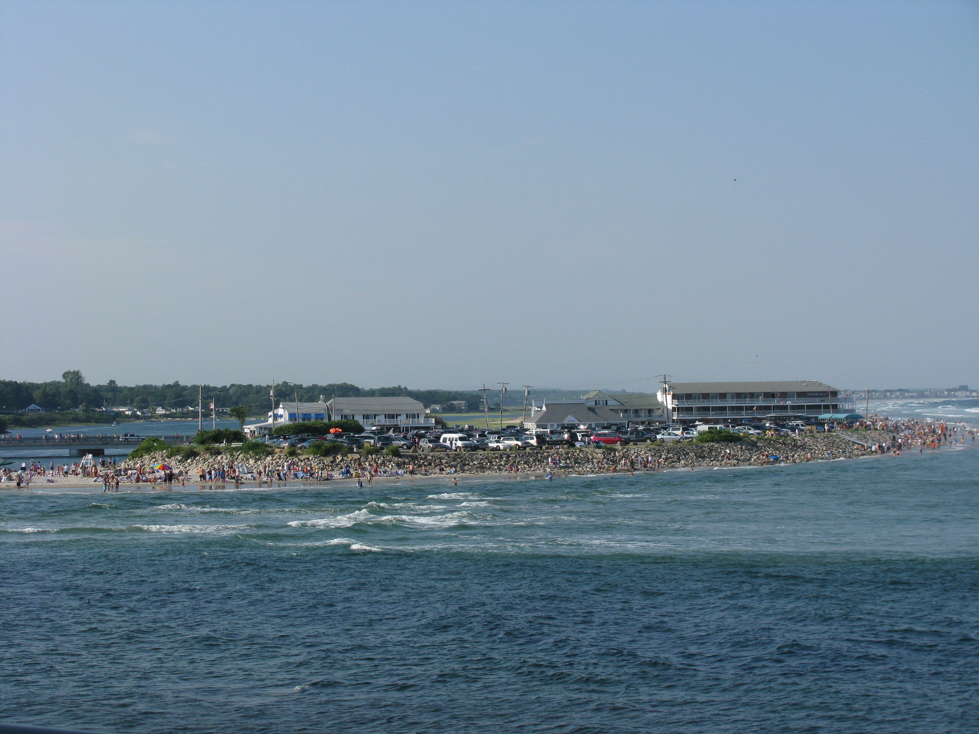 Ogunquit Beach at high tide, taken from the Marginal Way.